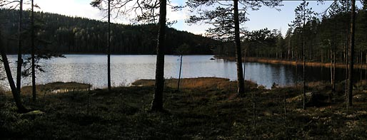 A view at the lakelet of Älgtjärnen